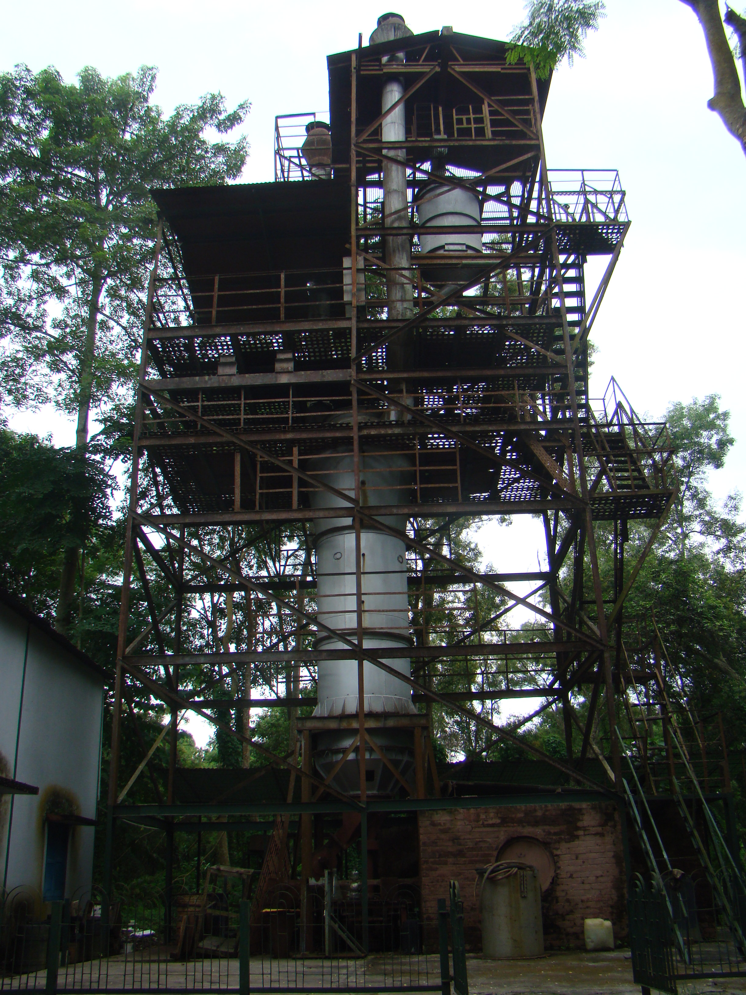 NEIST VSK cement plant, Jorhat